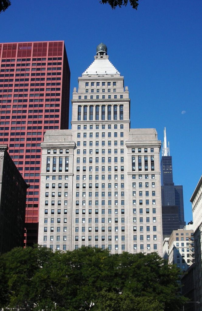 Metropolitan Tower, Michigan Avenue, Chicago, Illinois, USA; taken on 9/2/07 by Algonquin69. Also in photo: CNA Plaza on left, Sears Tower on right, and the waning moon.